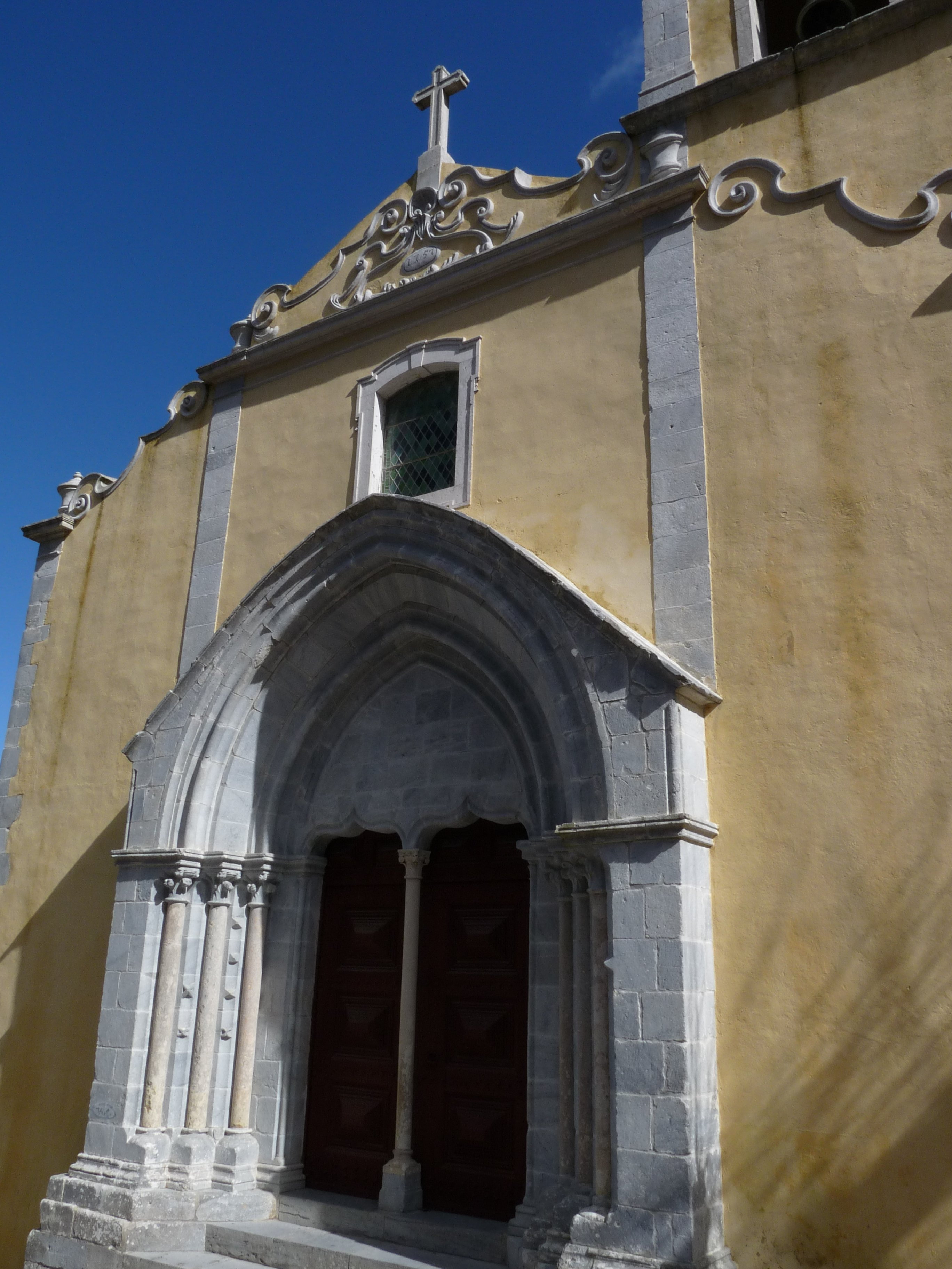 St. Mary (Santa Maria) Church at Sintra